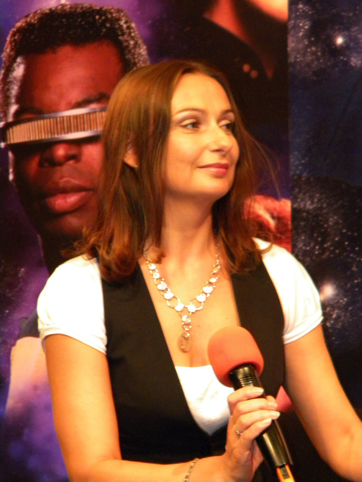 Jana Musilová at CzechTREK 5 Convention